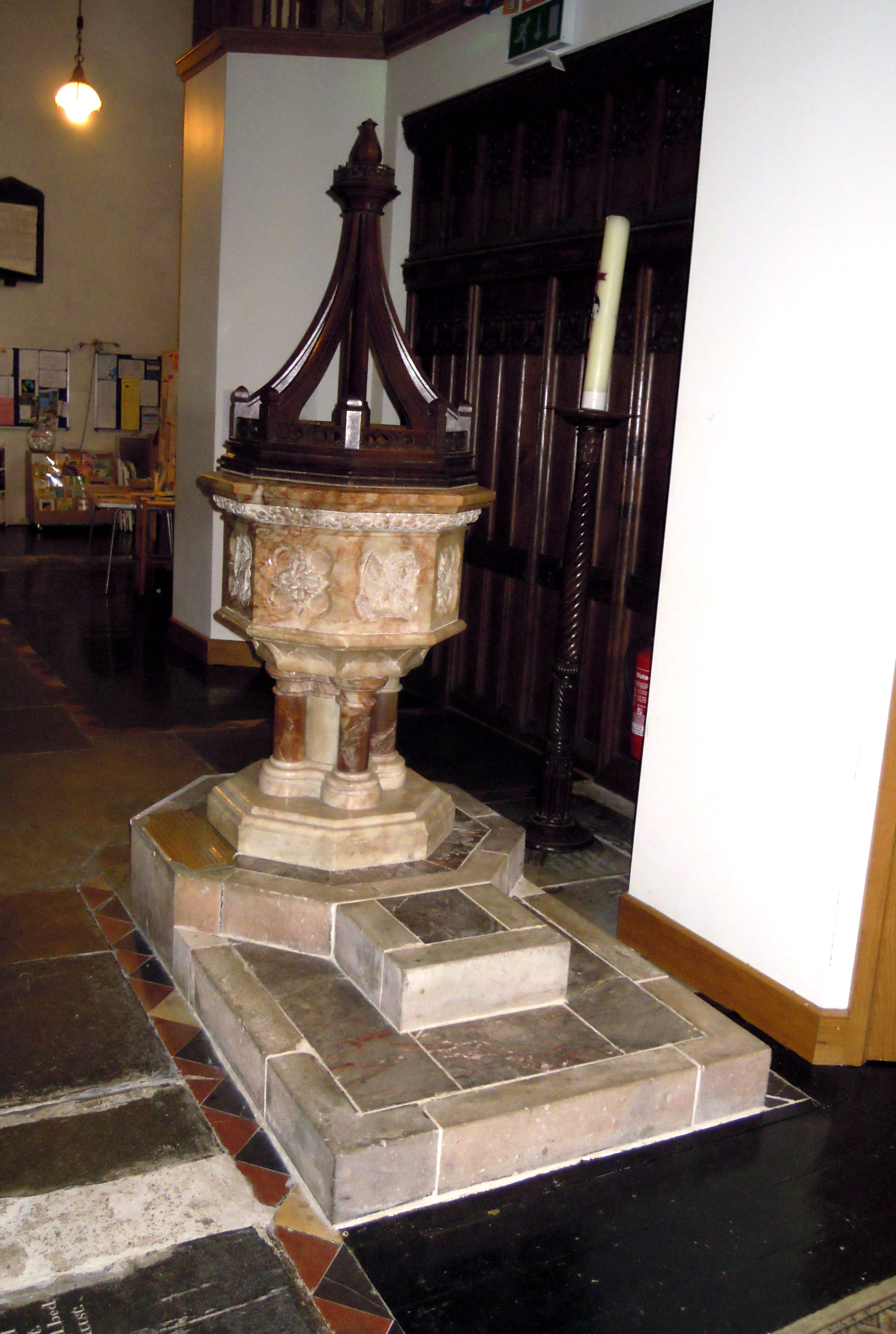 The baptismal font at the Church of St Michael and All Angels, Great Torrington in Devon